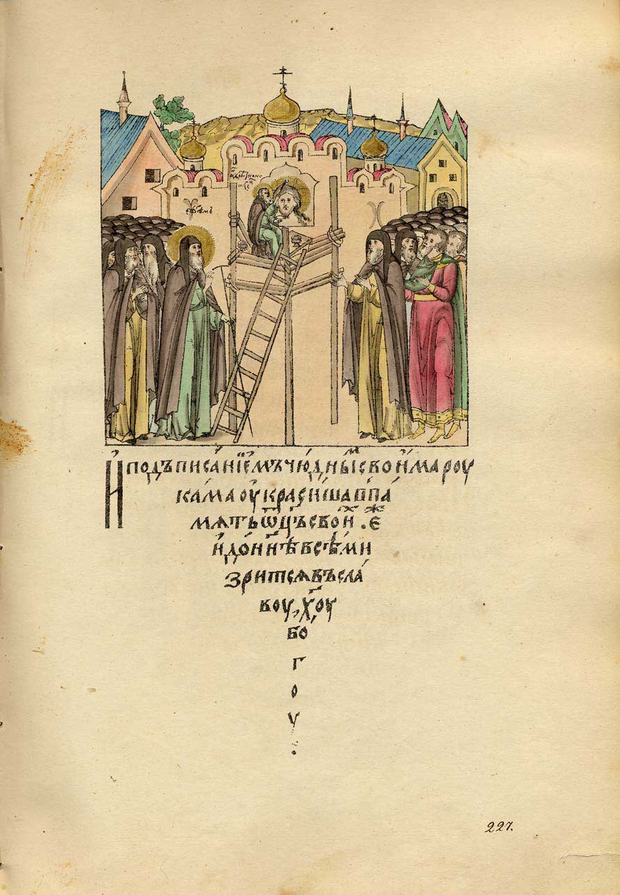 Andrei Rublev (center) is painting the Cathedral of the Savior in the Andronikov Monastery, a drawing of ca. 1592